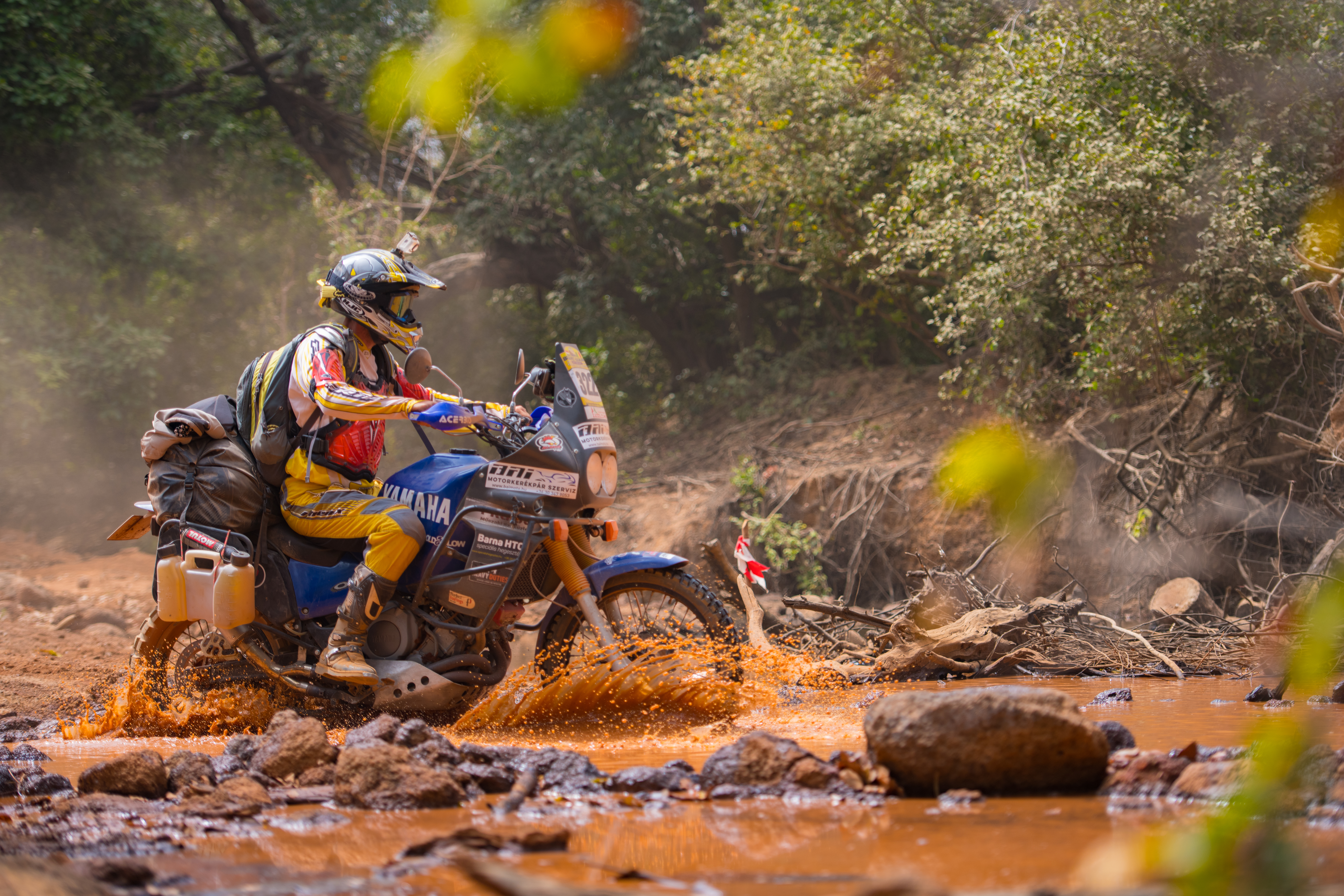 Offroad motorcycle crosses a small river in Guinea during the 2020 Budapest-Bamako